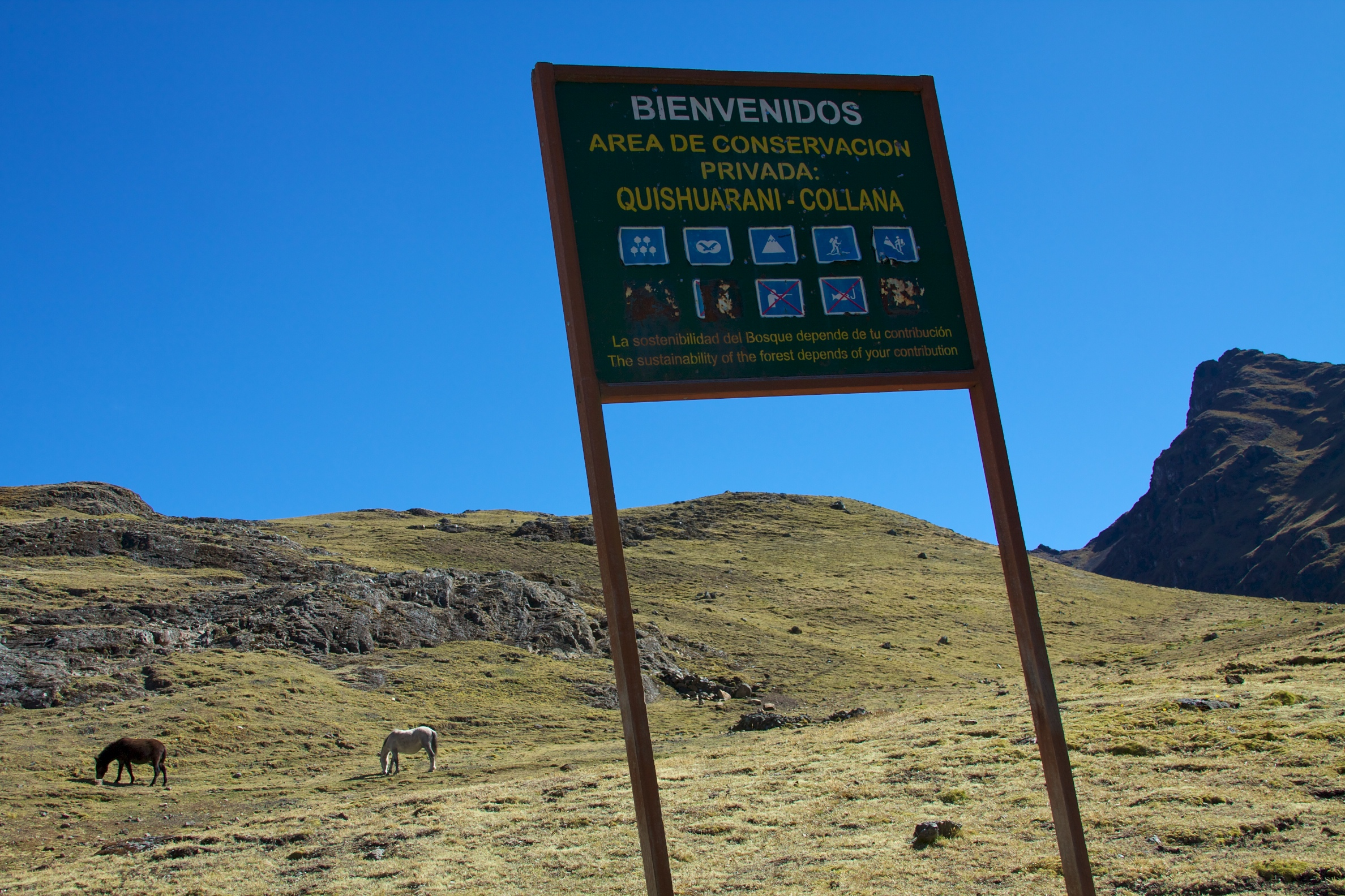 Note the use of the word "forest" may be a bit hopeful